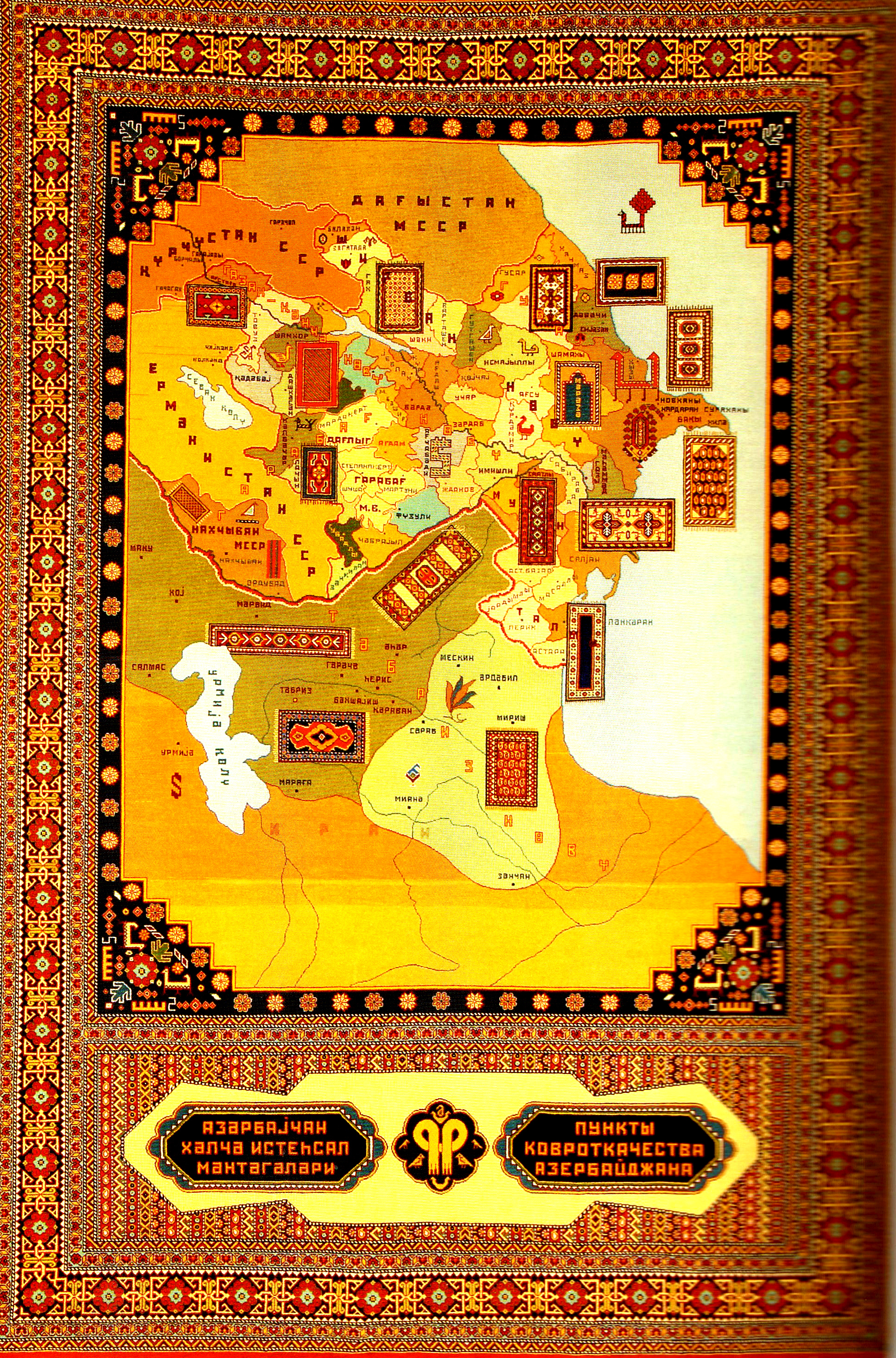 Azerbaijan modern carpet with rug-making points of Azerbaijan, 1984. The carpet Museum named after Latif Kerimov, Baku.